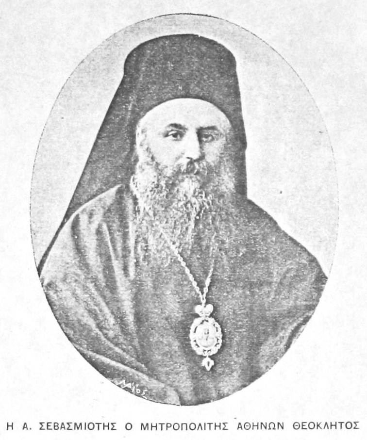 Theocletus I, Archbishop of Athens, from a 1911 publication